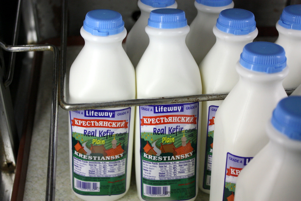 Irina noted that Lifeway, a company based in Chicago and started by a Russian immigrant, is a big producer of Russian dairy products. The store has both plain and flavored kefirs. (Judging by the camera location, the store is presumably European Foods at 13520 Aurora Avenue North, Seattle, Washington, USA.)